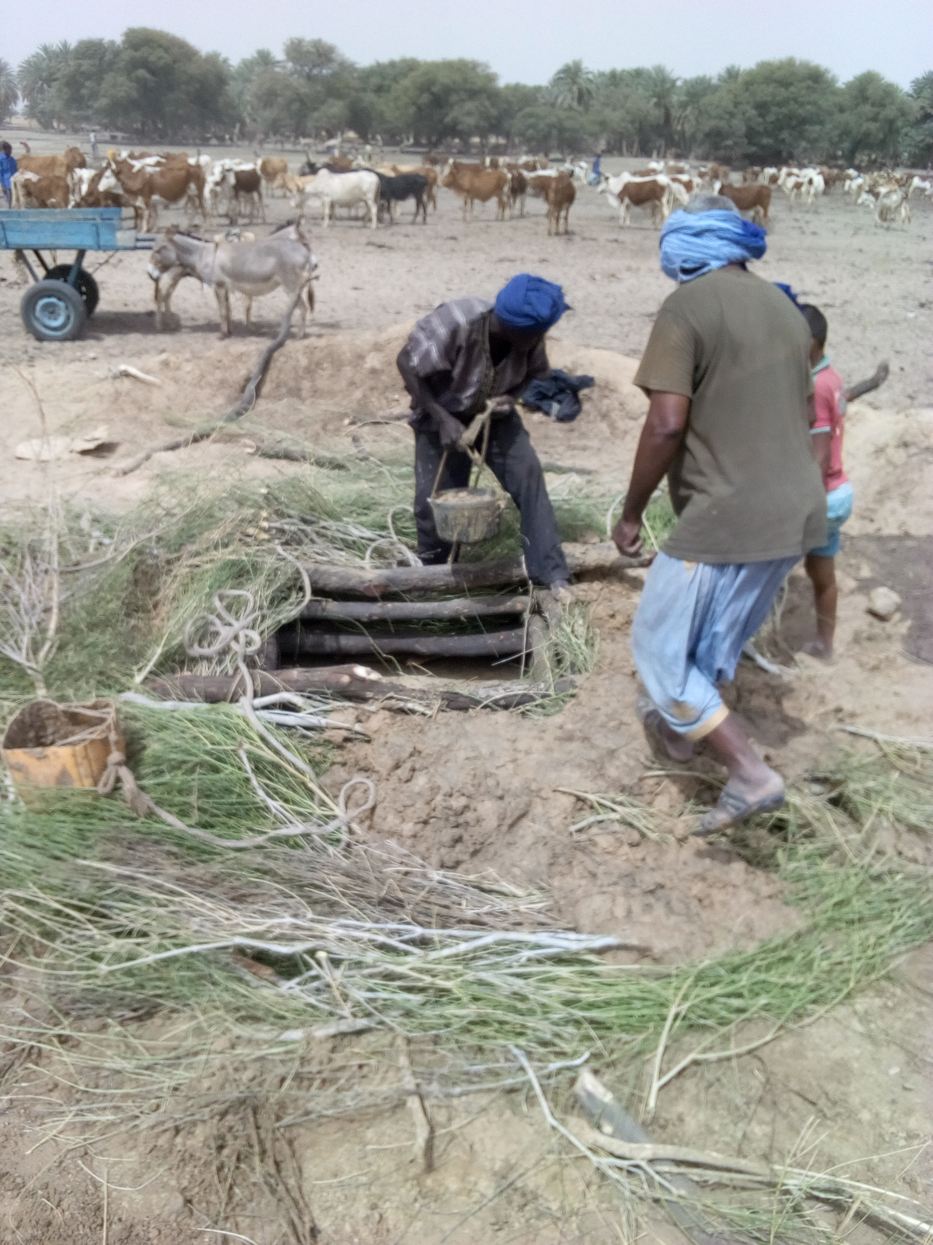 A photo by my camera in the (Tamourt Treidat) kobenni emin maleck